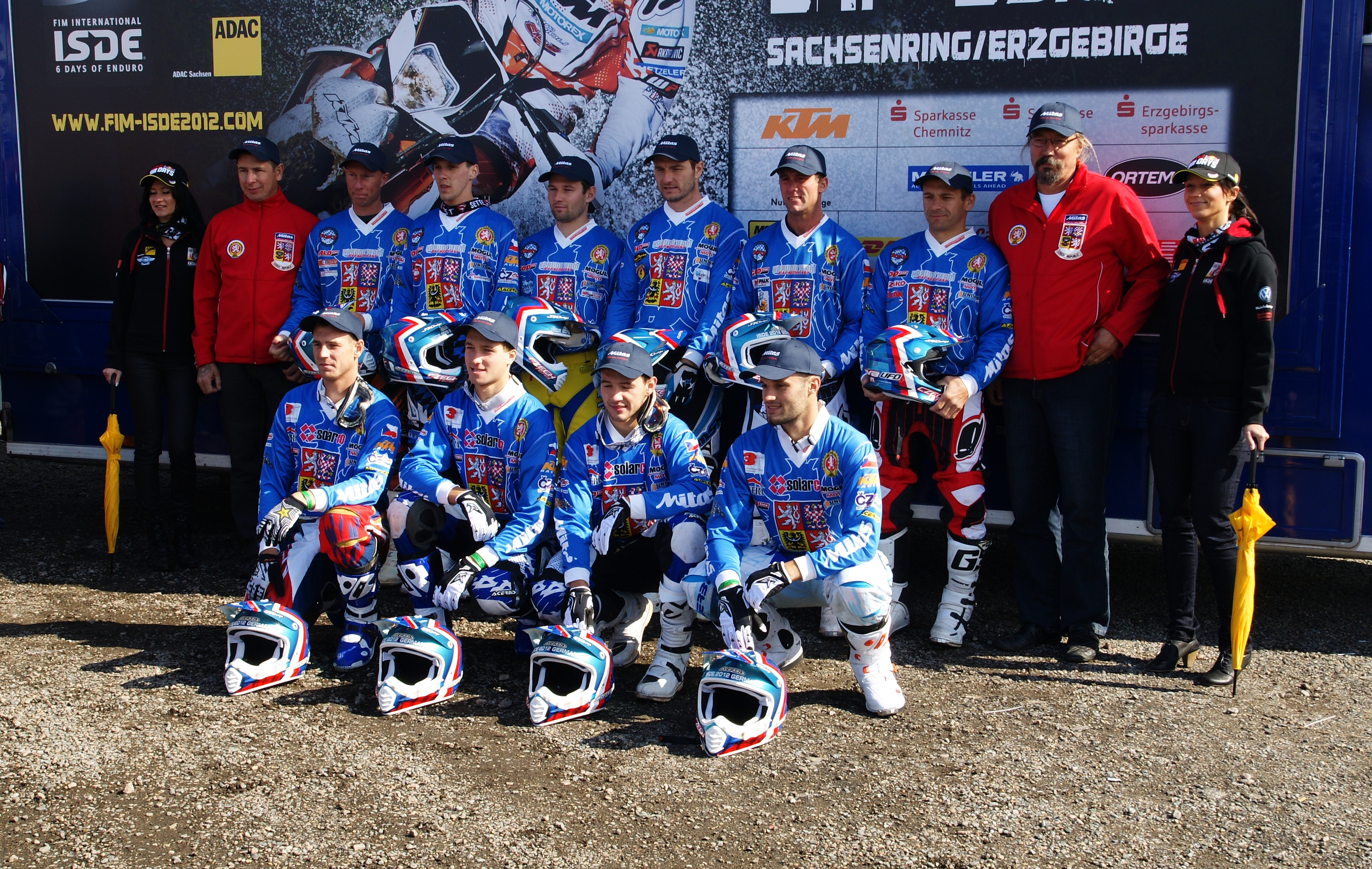 The making of this document was supported by the Community-Budget of Wikimedia Germany. 87. ISDE Saxony 2012 National Teams Czech